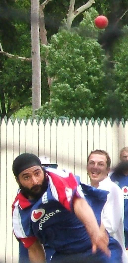 Bowling Monty